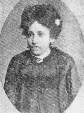 Czech writer Berta Mühlsteinová (1841–1887)